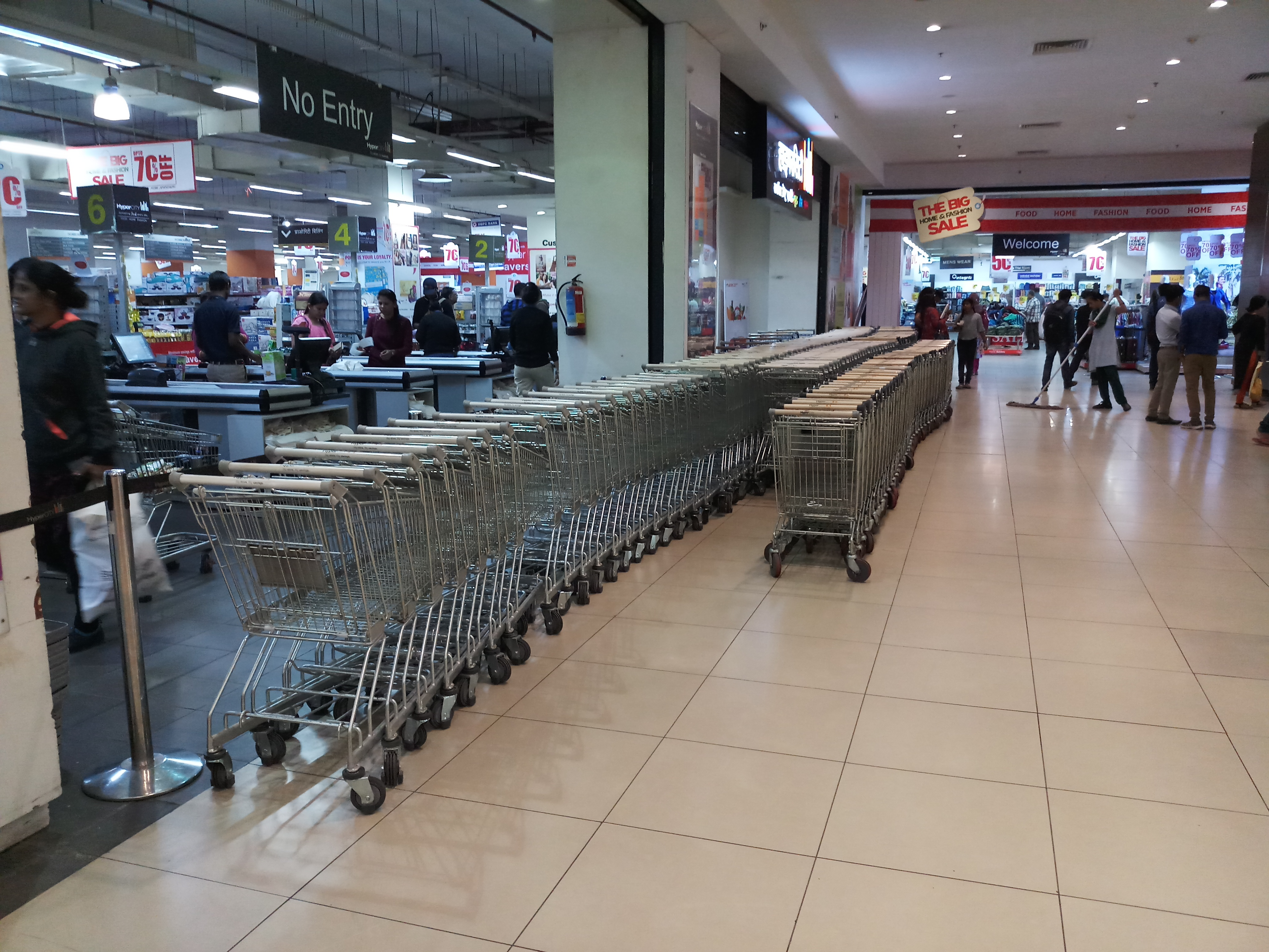 shopping trolly parked in a mall